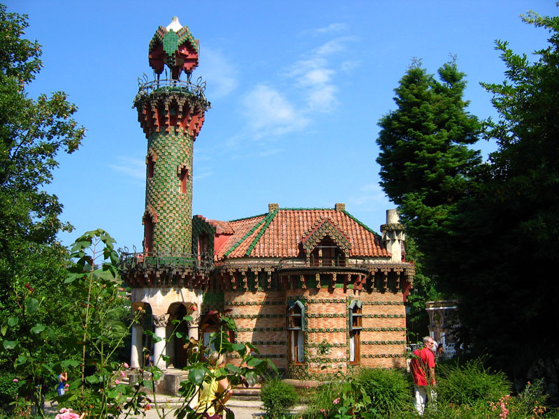 Gaudí's "El Capricho", in Comillas (Cantabria, Spain).